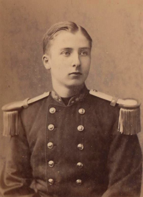 Prince Baudouin of Belgium (1869-1891)